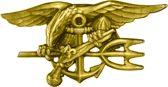 Navy SEAL insignia